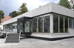 KUNST Pavillon